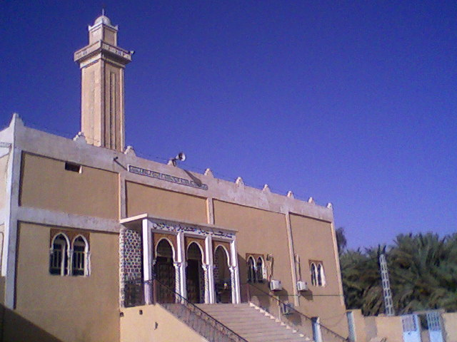 The mosque Ibn Badis in Beni Abbes, Algeria